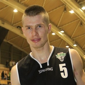 Krzysztof Roszyk - Turów Zgorzelec, sezon 2008/09